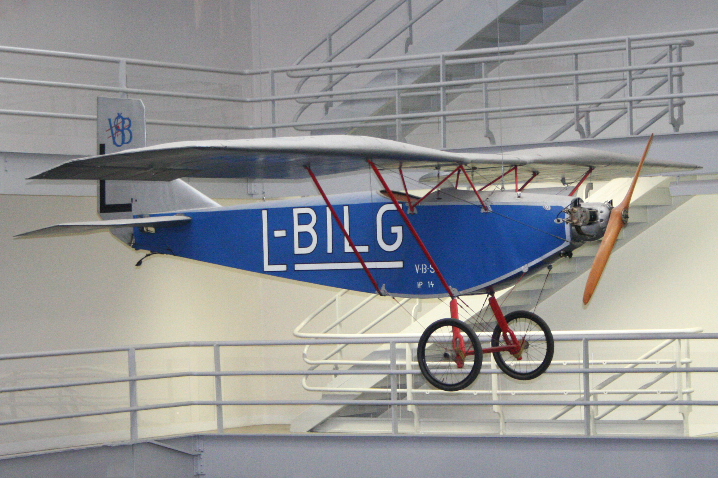 This aeroplane was built by two Simunek brothers while they were students at Prague University. Construction started in 1924 and was complete in 1926. msn 1. National Technical Museum. Prague, Czech Republic. 07-10-2012